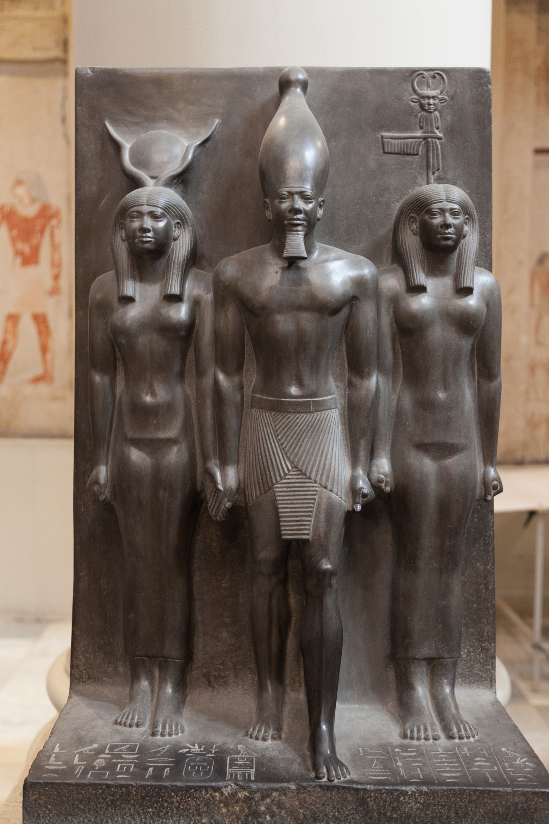 Triad statue of pharaoh Menkaura, accompanied by the goddess Hathor (on his right) and the personification of the nome of Diospolis Parva (on his left). Material:Graywacke. Dimensions:Height 93 cm Width 47 cm